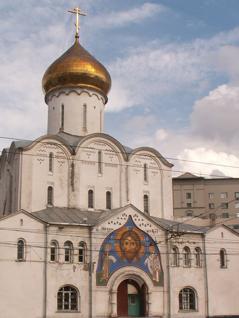 St.Nicholas by Tverskaya Zastava